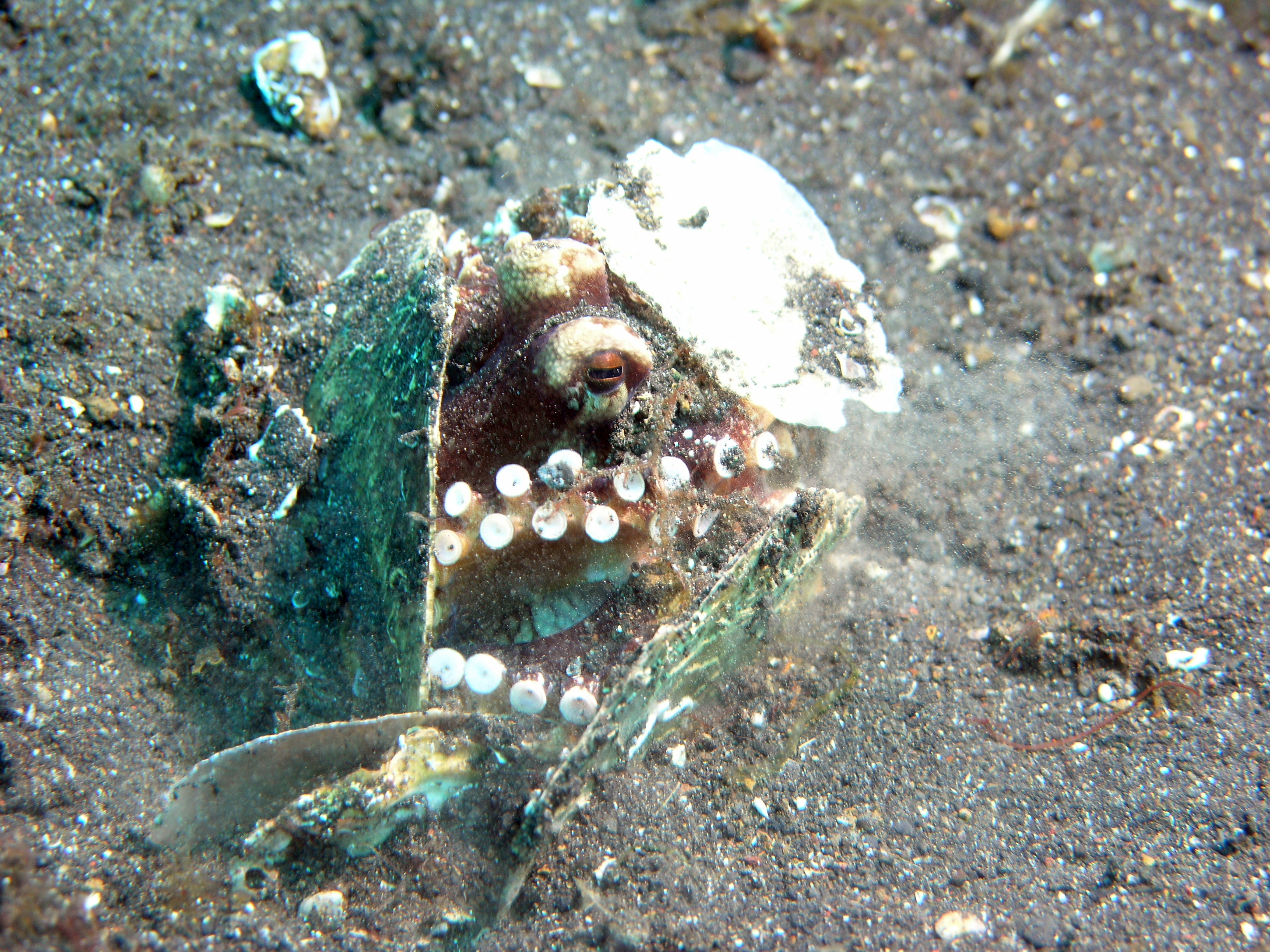 Image of a coconut octopus, Octopus marginatus, building a defensive fortress using seashells. Taken at Lembeh Straits, North Sulawesi, Indonesia.